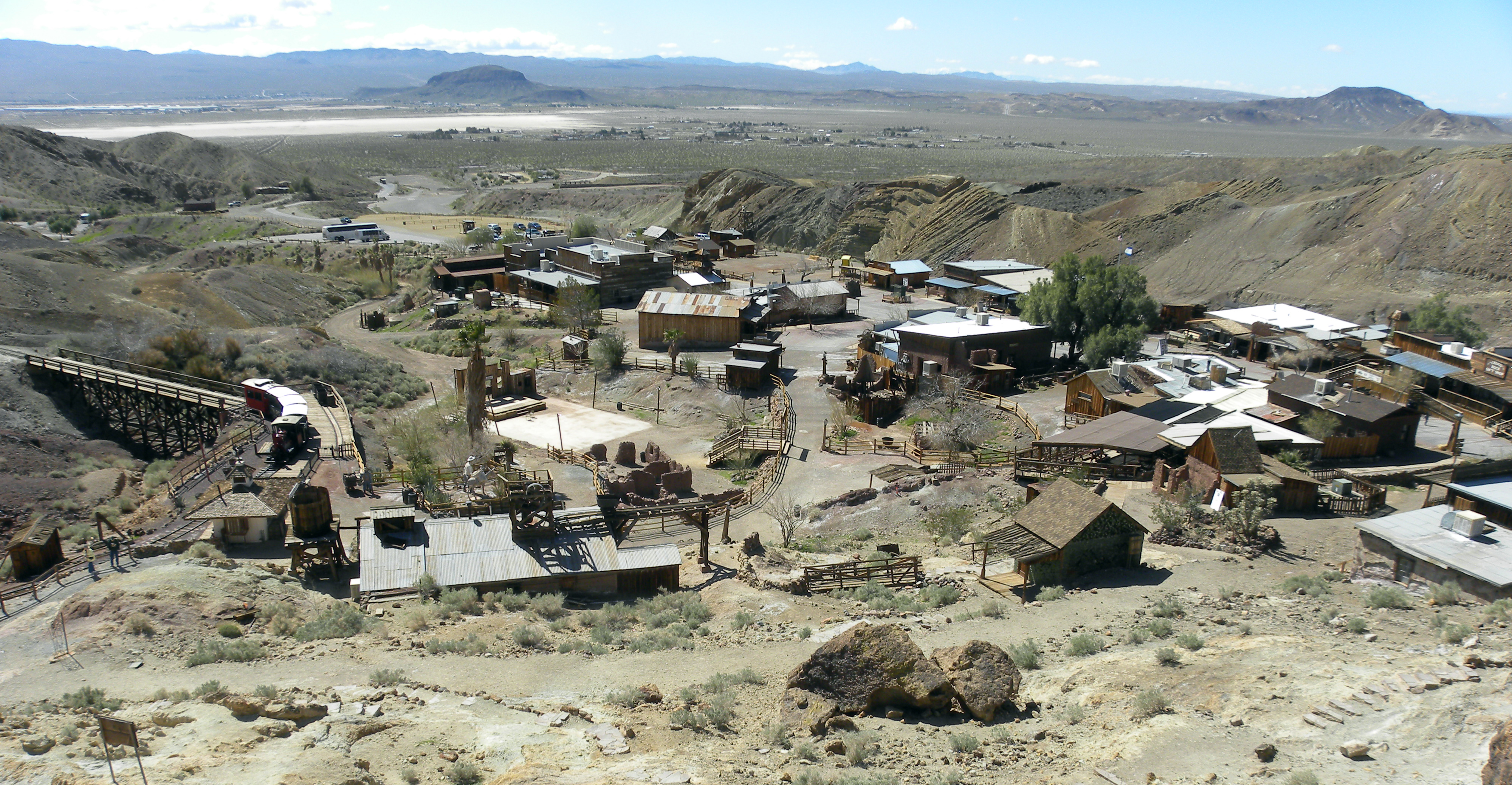 Calico Ghost Town — open air museum/park in the Mojave Desert, near Barstow, California.